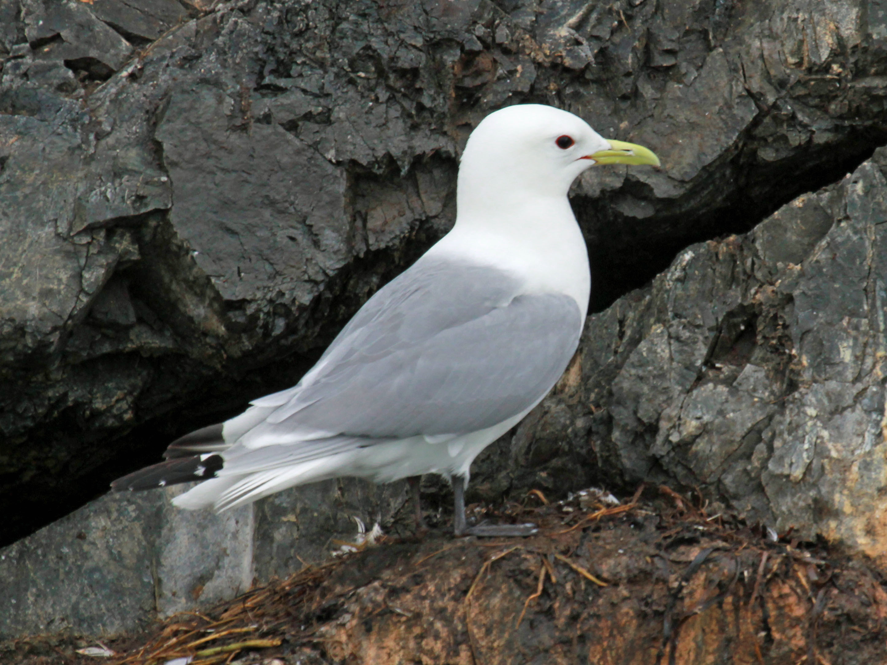 Black-legged Kittiwake (Rissa tridactyla) at Gull Island, Kachemak Bay, Alaska. Breeding plumage.